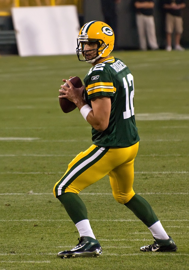 Aaron Rodgers drops back for a pass on September 1, 2011 in Green Bay, Wisconsin.